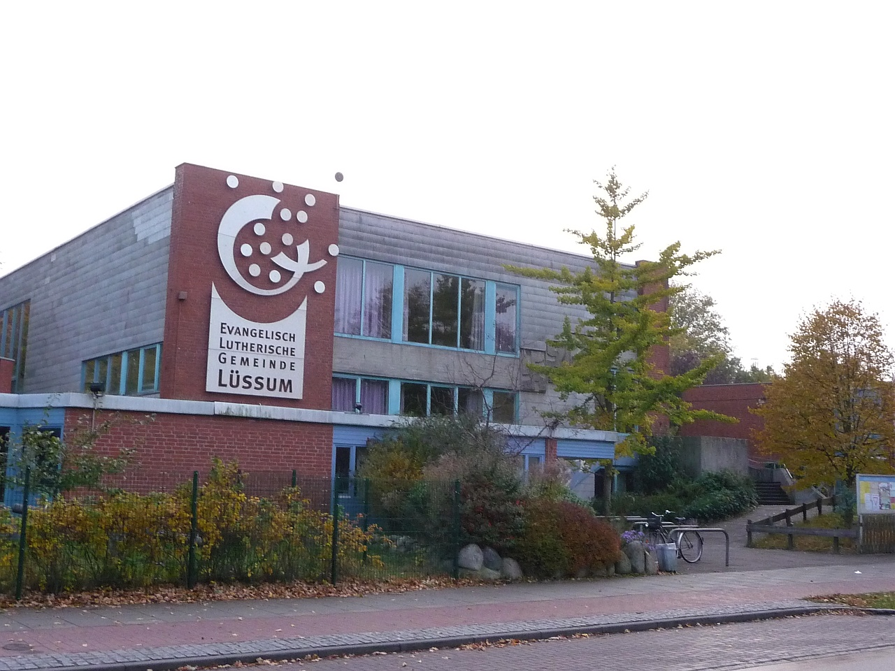 evang. Luth. congregation in Bremen-Blumenthal-Luessum